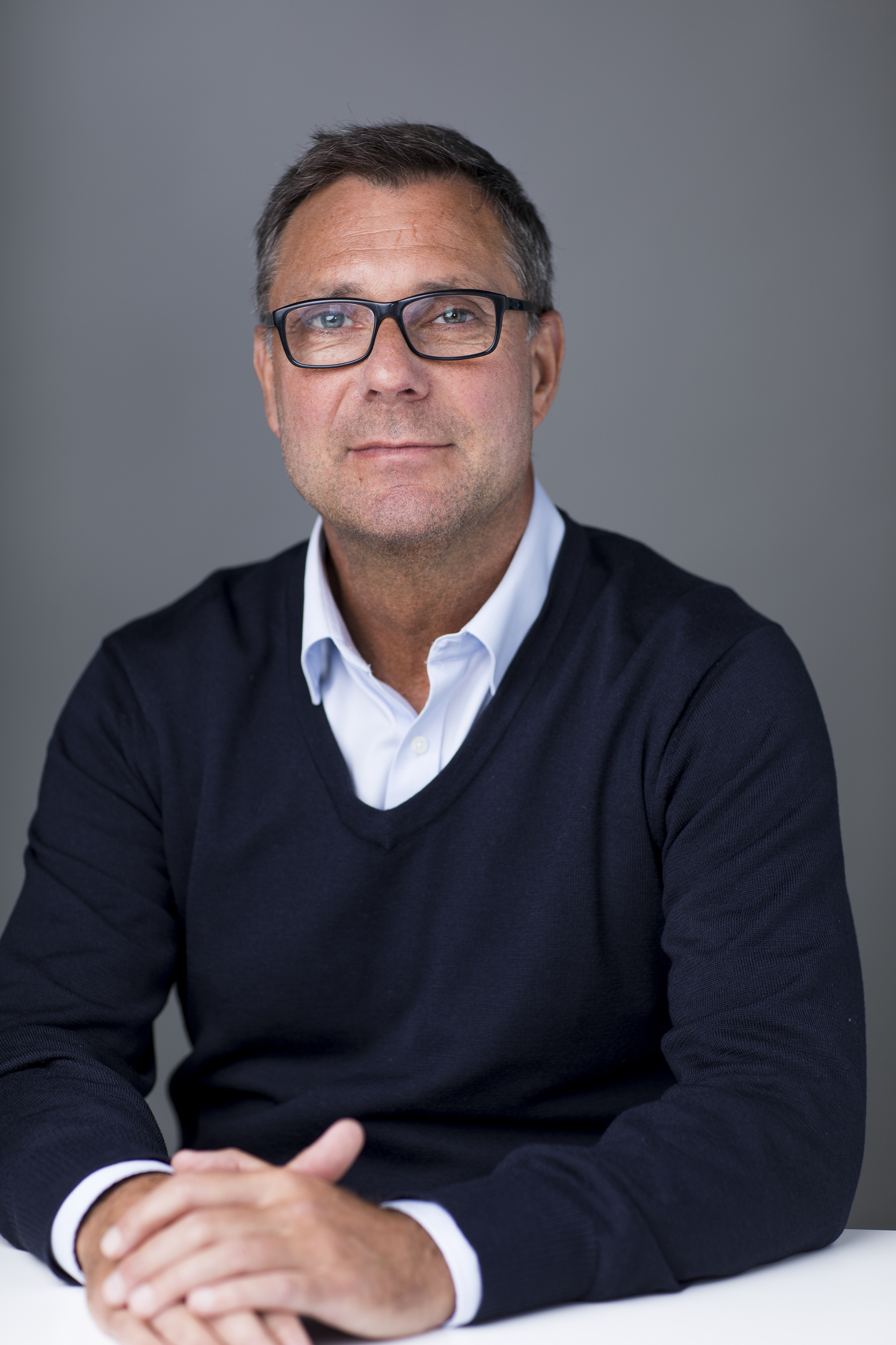 Willum Þór Þórsson, a member of the Icelandic parliment for the Progressive Party.